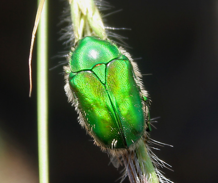 Chiloloba acuta- Green Scarab Beetle - in Herbal Garden, in Rangareddy district of Andhra Pradesh, India.